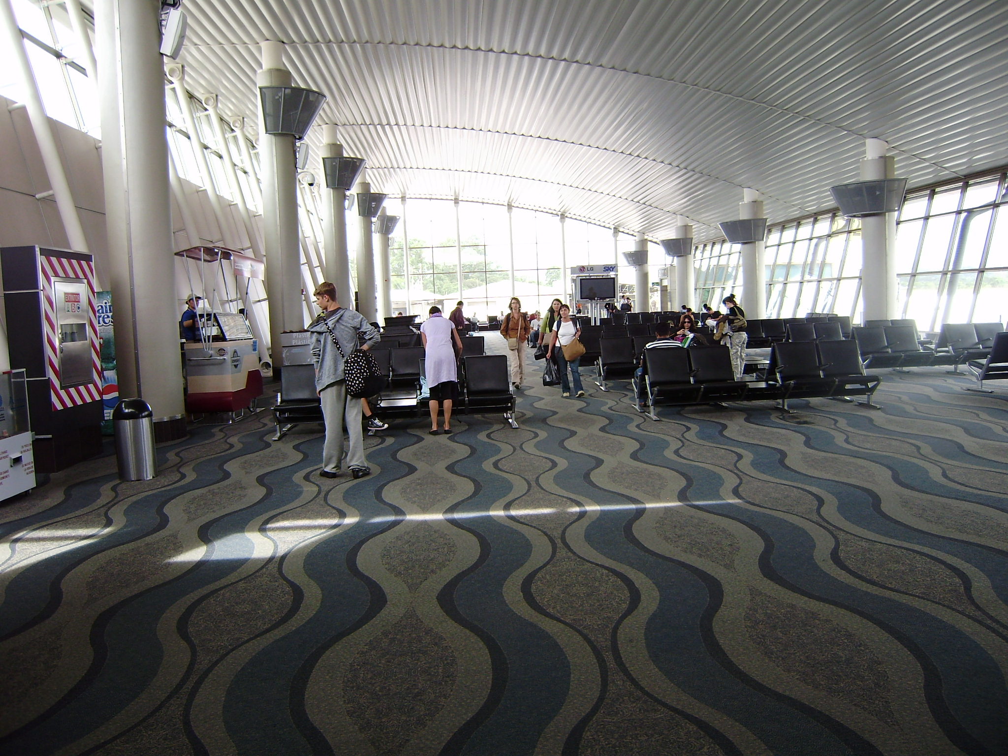 Arrives hall of Juan Santamaria International Airport (SJO), Alajuela, Costa Rica